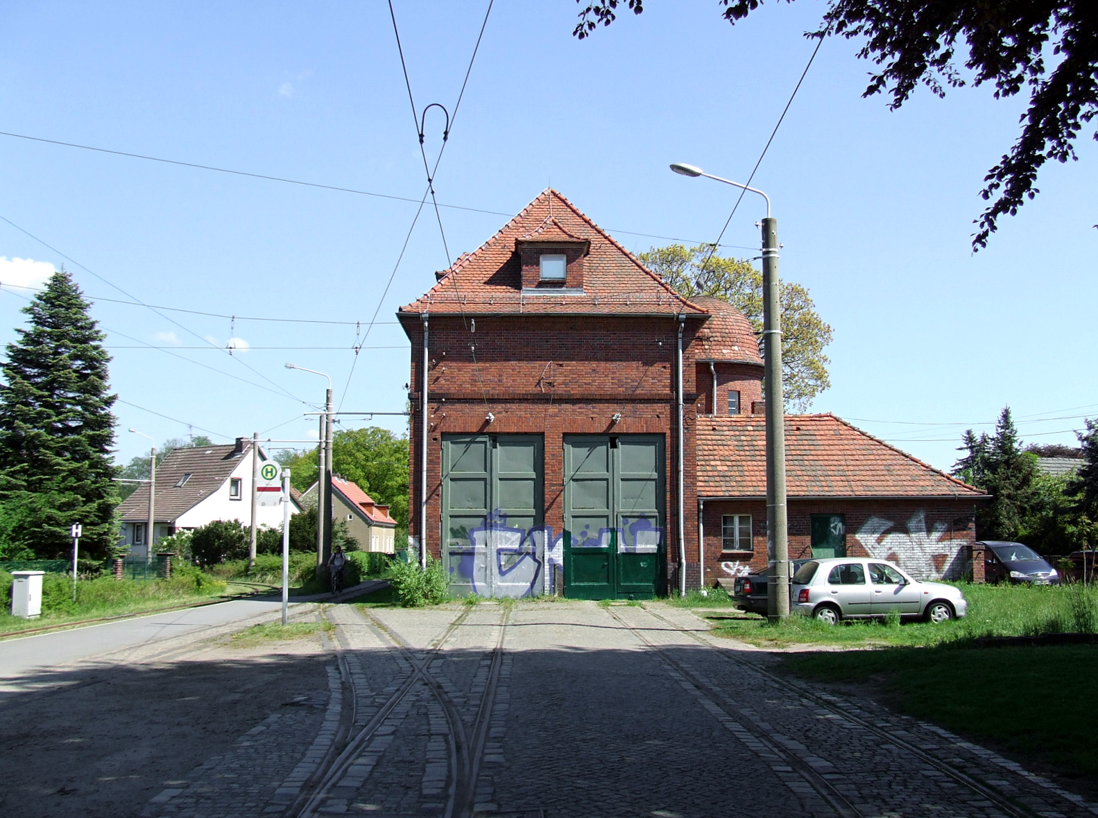 The old depot in Madlow. It is now in private ownership and, since 2010, no longer connected to the tram network.